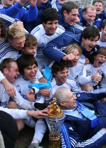 Zenit players delighted after winning Premier League trophy of 2007